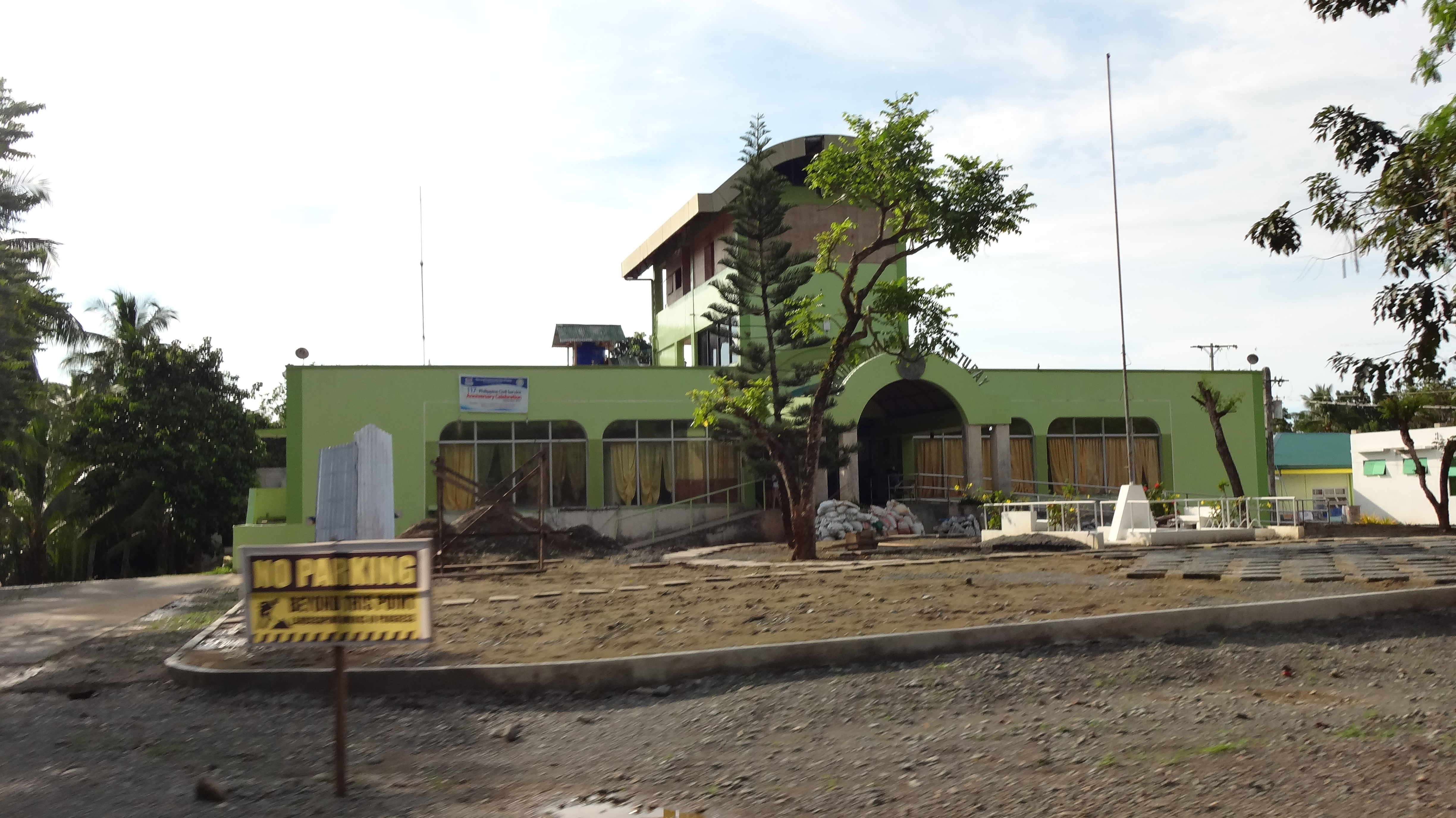 This is my own work.